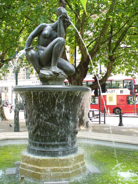 Statue in Sloane Square A leafy square with a Classical statue / fountain in London's exclusive Belgravia district.